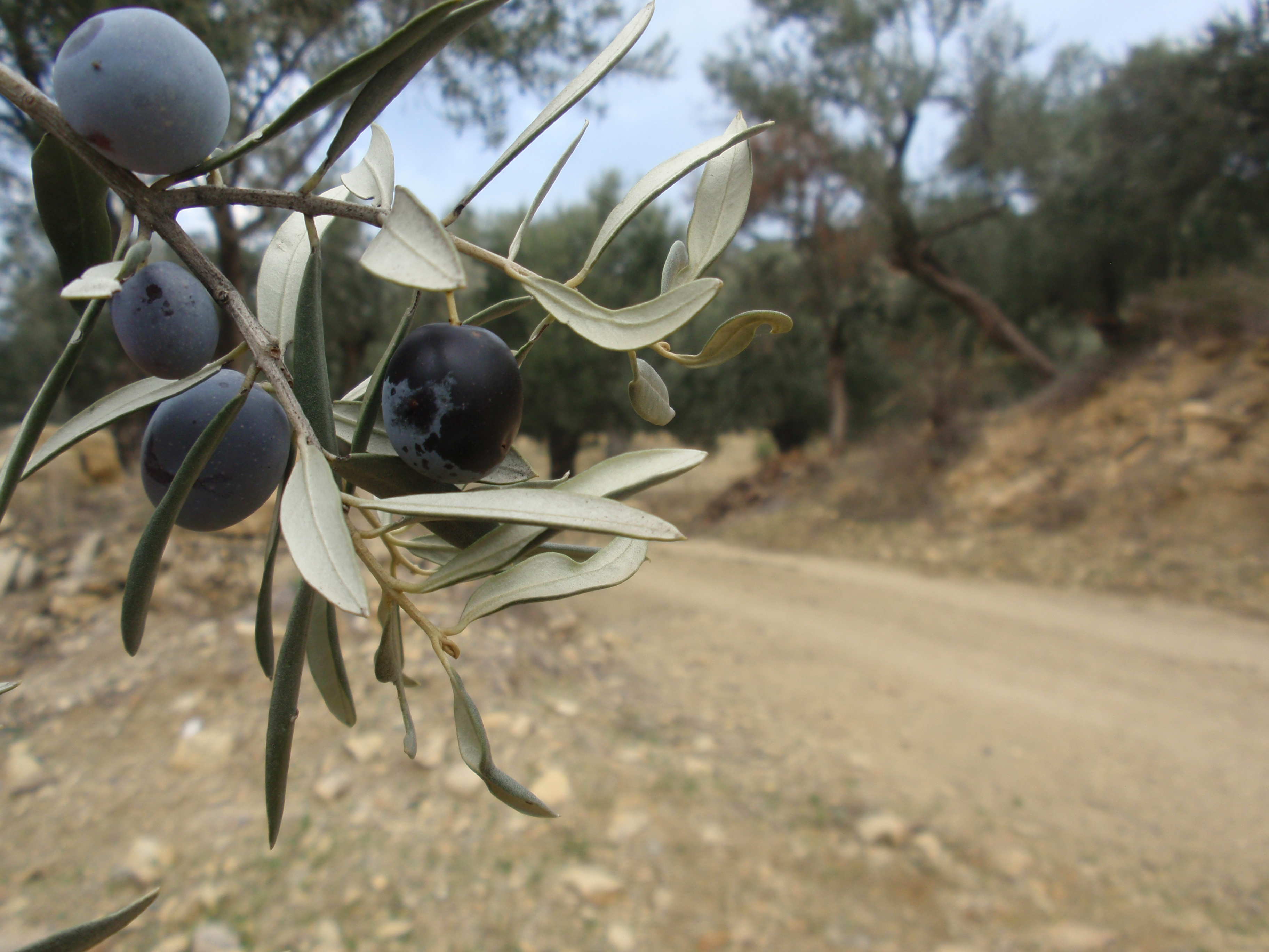 Olive fruit in Pelitköy, Turkey